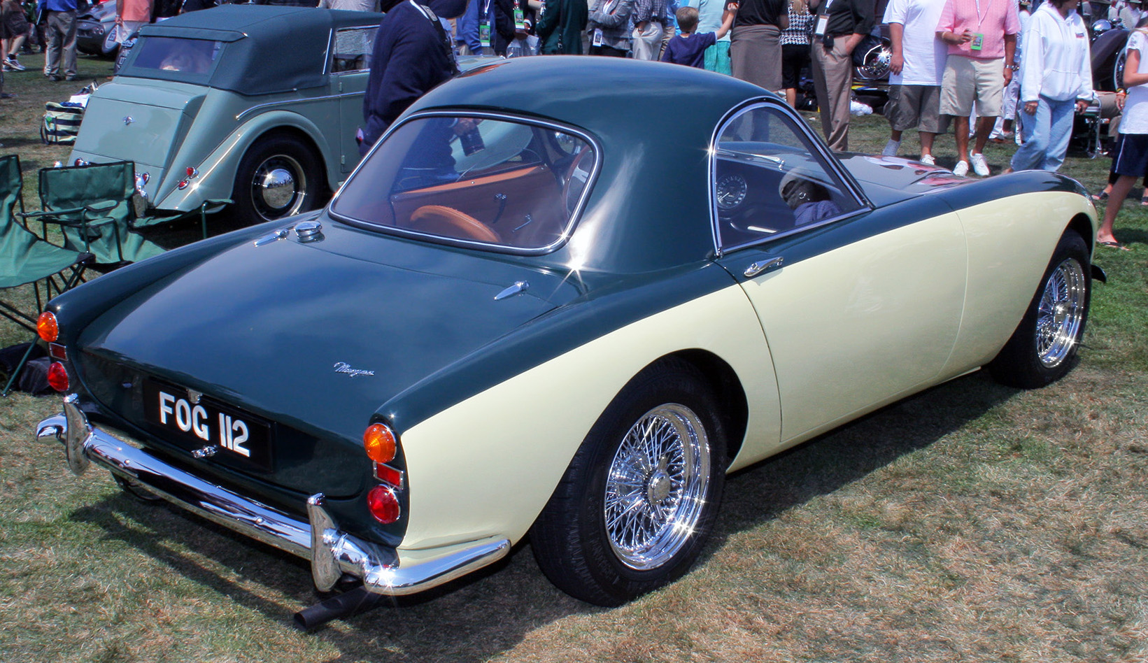 Morgan Plus 4 Plus (1965) at Pebble Beach Concours d'Elegance, Aug 16, 2009